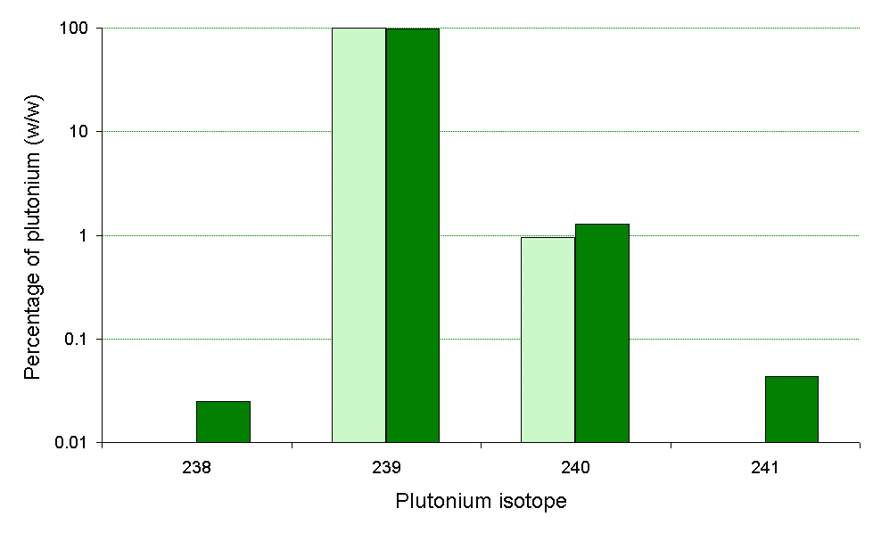 See the graphs on the trinity glass in J. Environmental Radioactivity